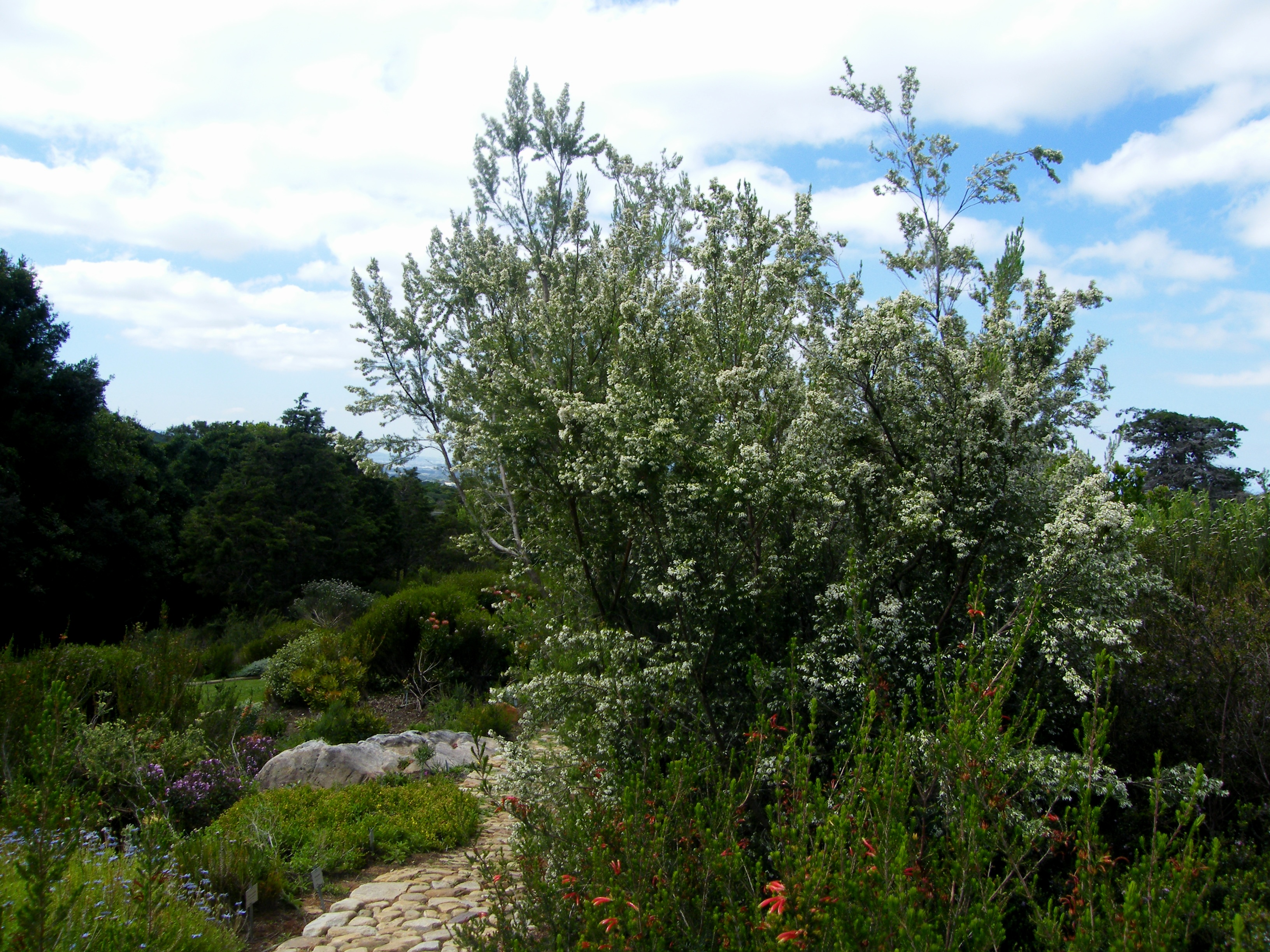 water heath